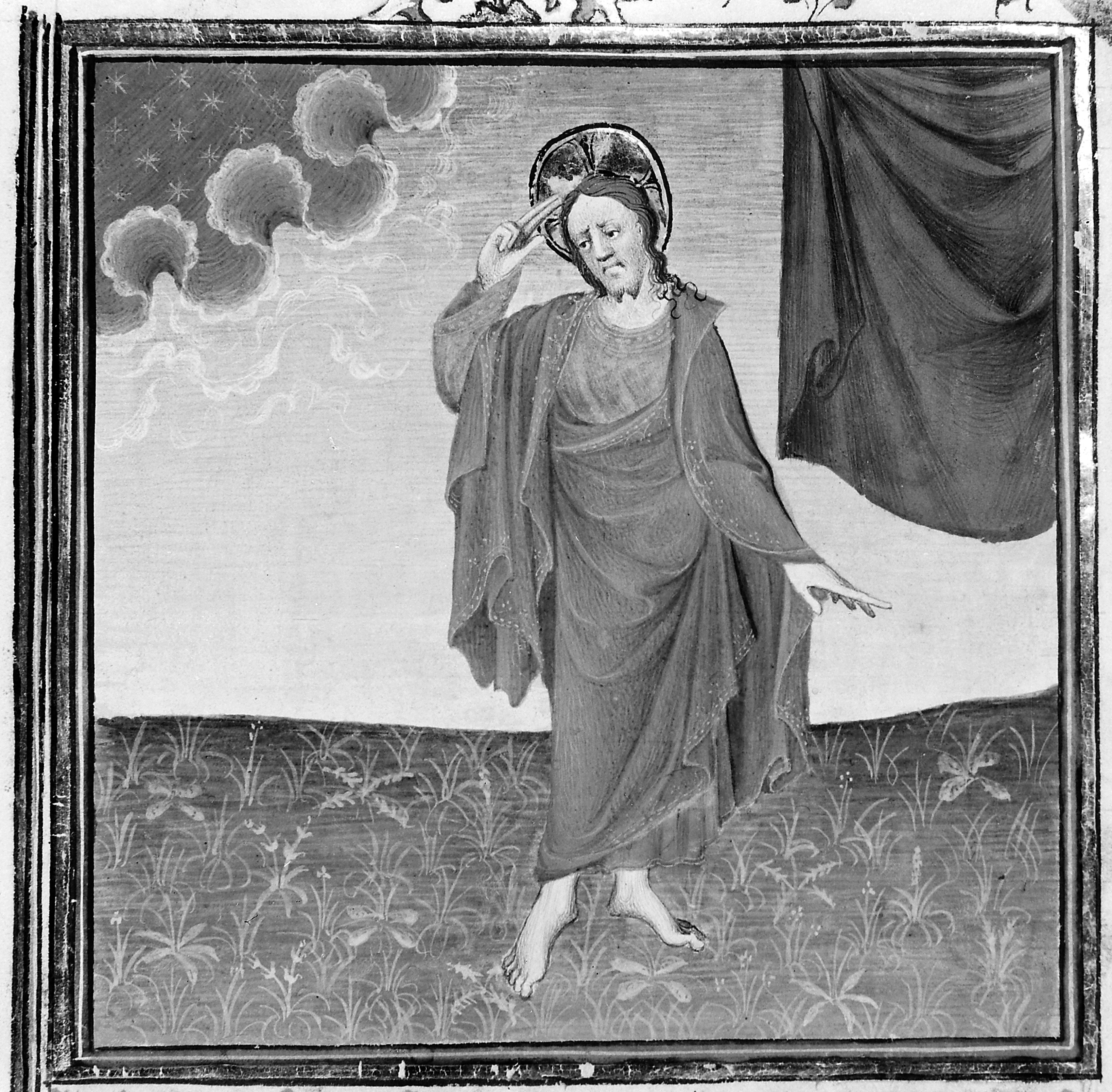 Creation of light, 15th Century. Miniature Illustrations of the book of Genesis Archives & Manuscripts Keywords: creation, 15th century; genesis, 15th century; bible, 15th century